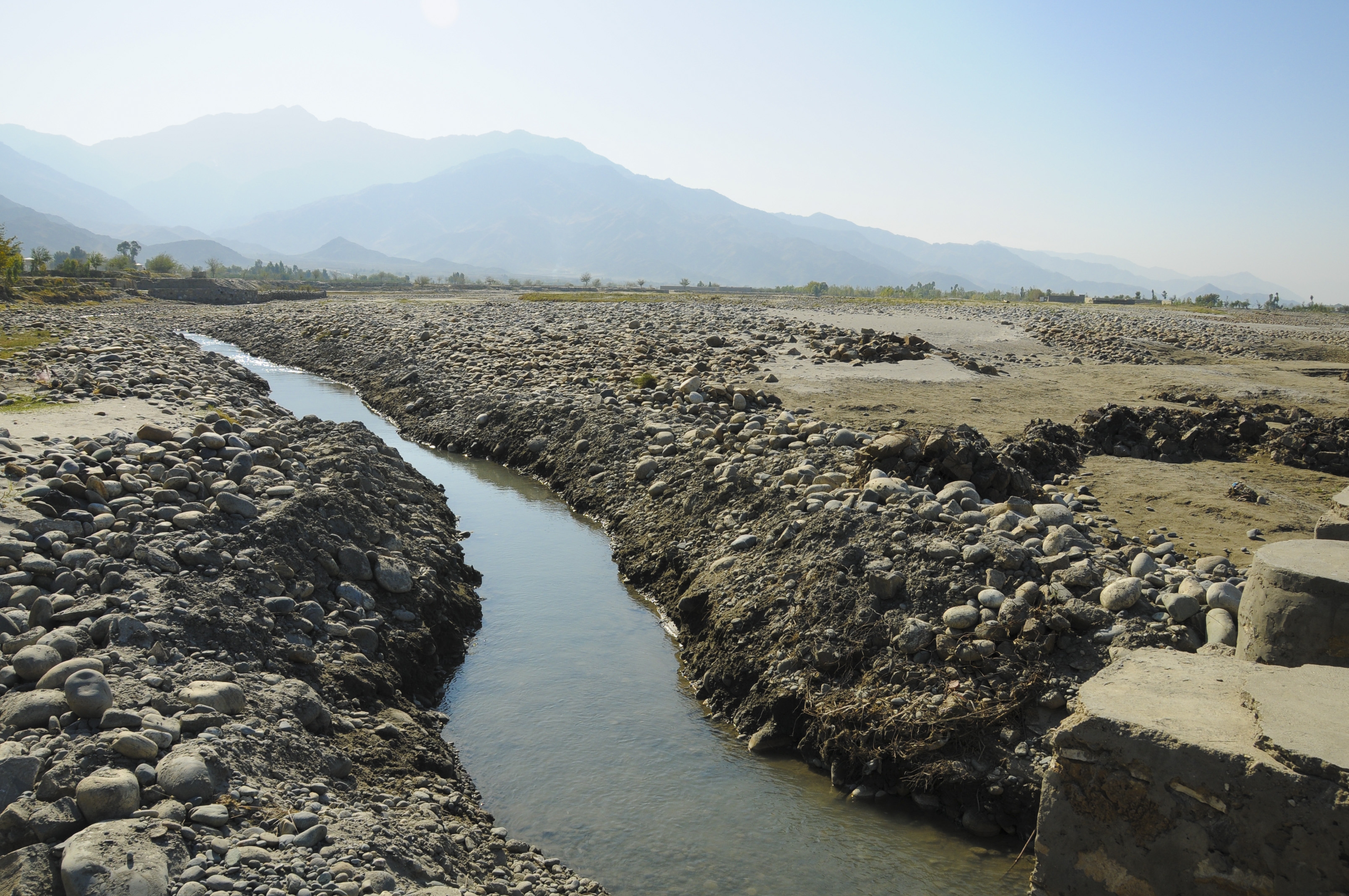 Afghan workers of the Sarkani District recently cleaned out a portion of a canal, several kilometers long in Afghanistan's Kunar province, as part of a cash-for-work project, which was completed over a two-week period in November. The project will enable the irrigation of 2,000 jeribs (about a thousand acres) of farmland in the district at a cost of just more than 155,000 afghani (approximately $3,100). Members of the Iowa National Guard's 734th Agribusiness Development Team performed a quality assurance, quality control inspection on the canal clean-out project Nov. 22. (Photo ID: 348256)